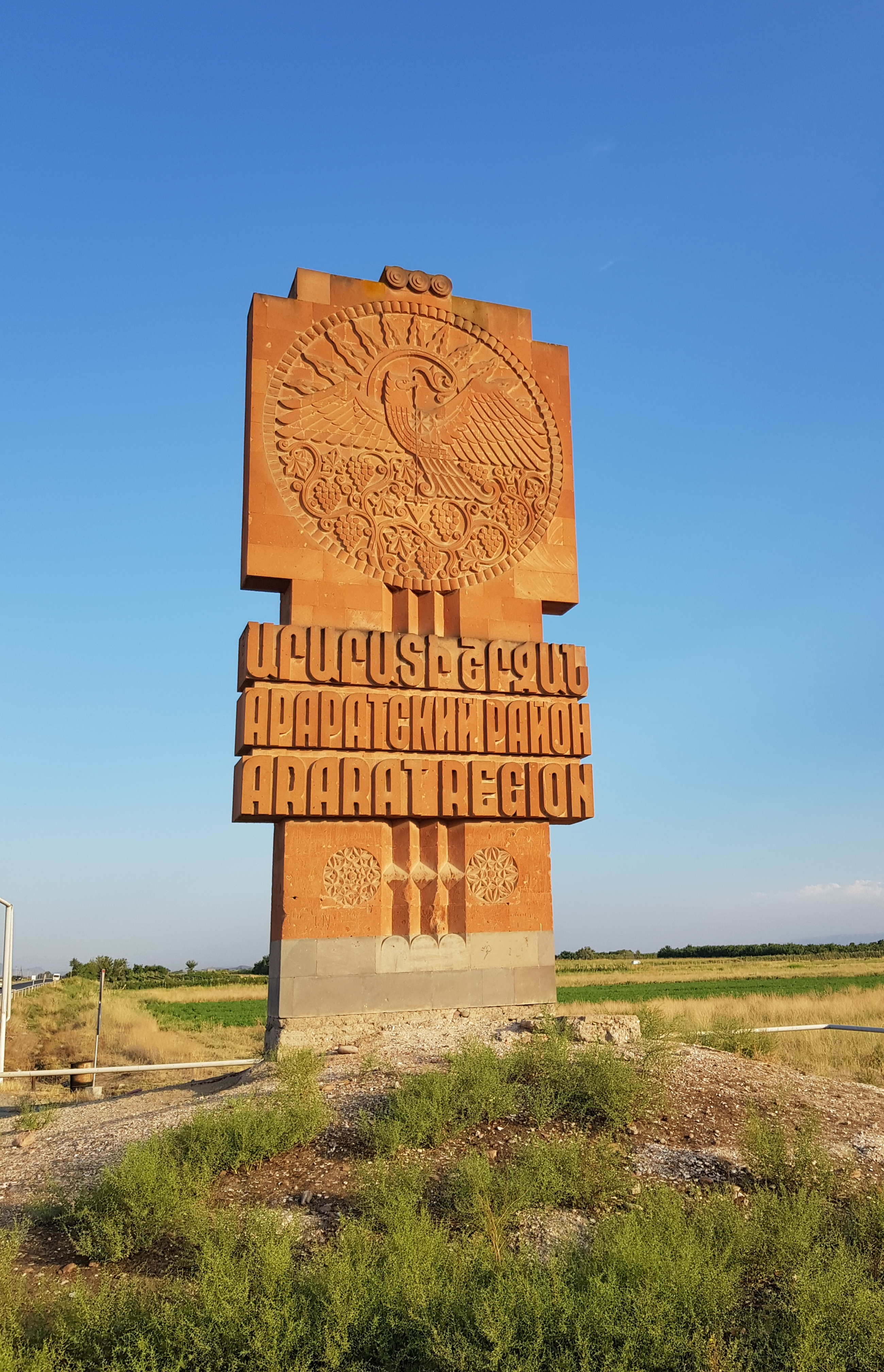 Monument Ararat Region